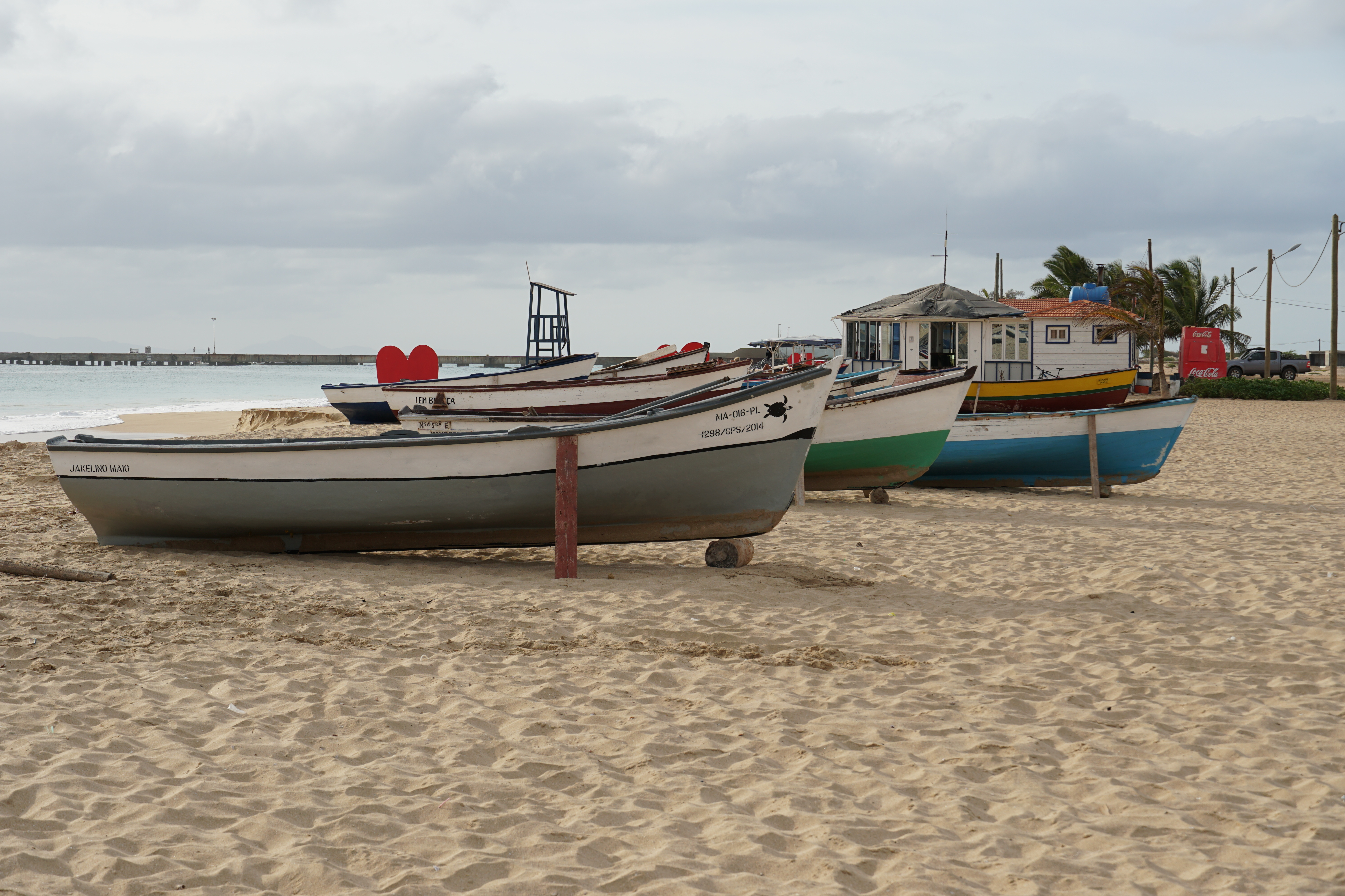 This is an image with the theme "Africa on the Move or Transport" from: Cape Verde